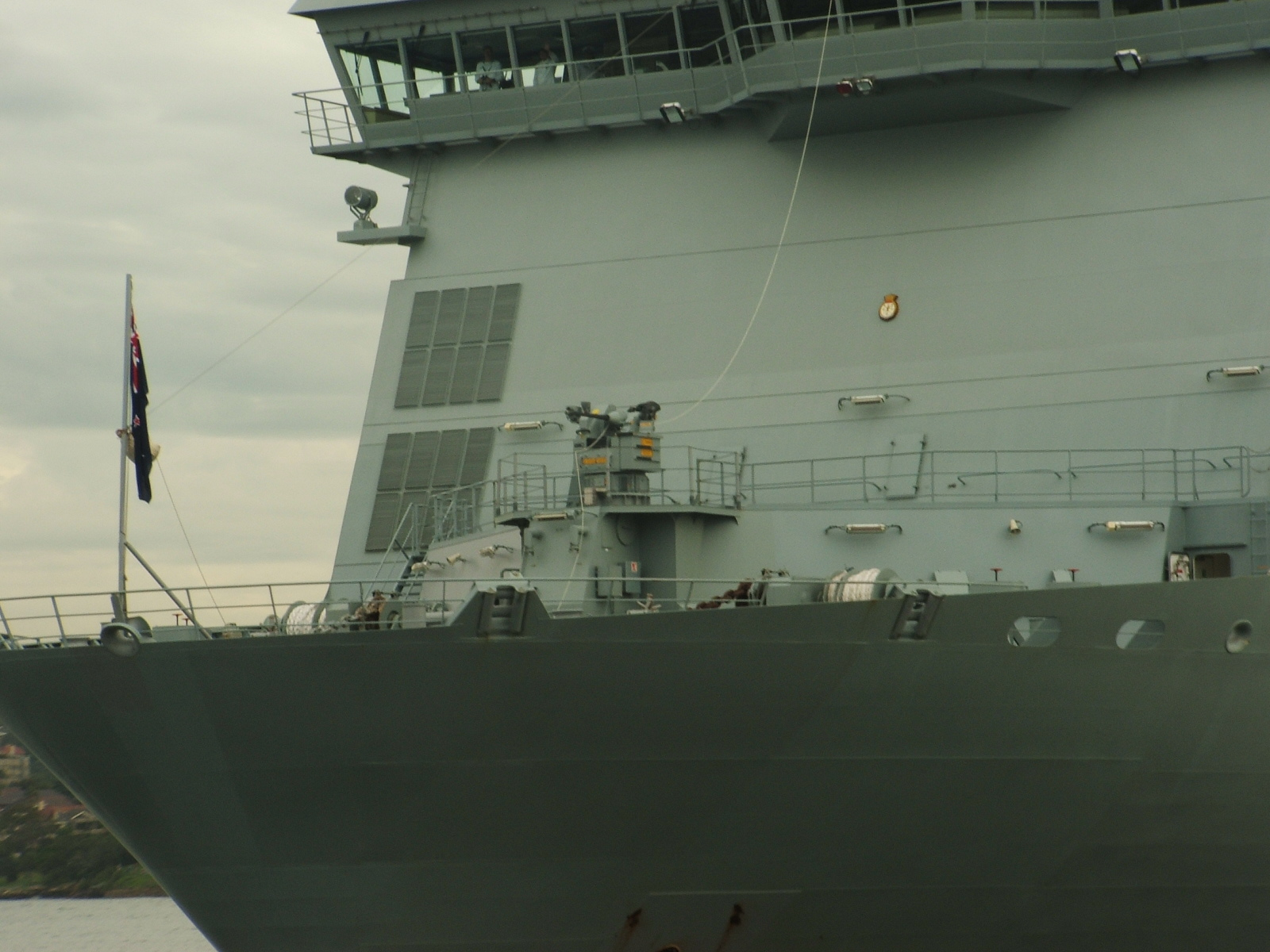 The main weapon of the multi-role vessel HMNZS Canterbury. The ship was anchored in Sydney Harbour following a ceremonial fleet review.